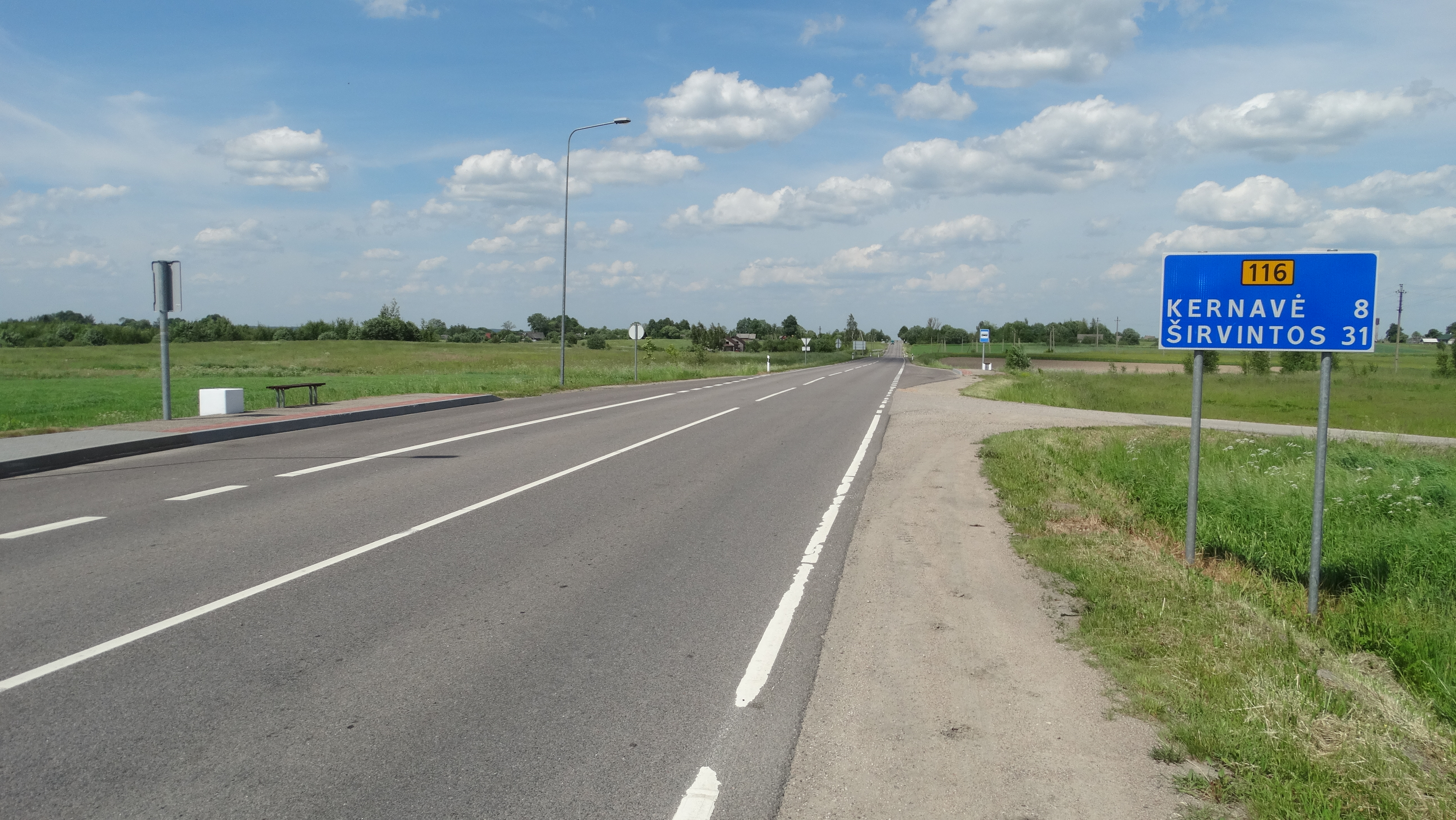 Road KK116, by Airėnai II, Vilnius district, Lithuania